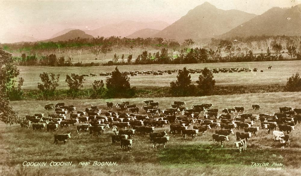 Postcard of Hereford cattle on Coochin Coochin Station, near Boonah, 1909. In the background Mount Moon and the mountain range of the Scenic Rim can be seen.